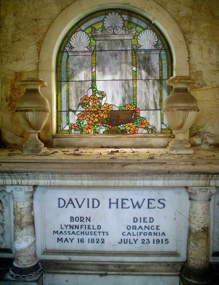 The burial vault of David Hewes (1822-1915), the San Francisco businessman who donated the "Golden Spike" driven at Promontory Summit, UT, on May 10, 1869, which joined the rails of the Central Pacific Railroad and Union Pacific Railroad to complete the First Transcontinental Railroad. Hewes is buried at Mountain View Cemetery in Oakland, California. Photograph by uploader, User:Centpacrr